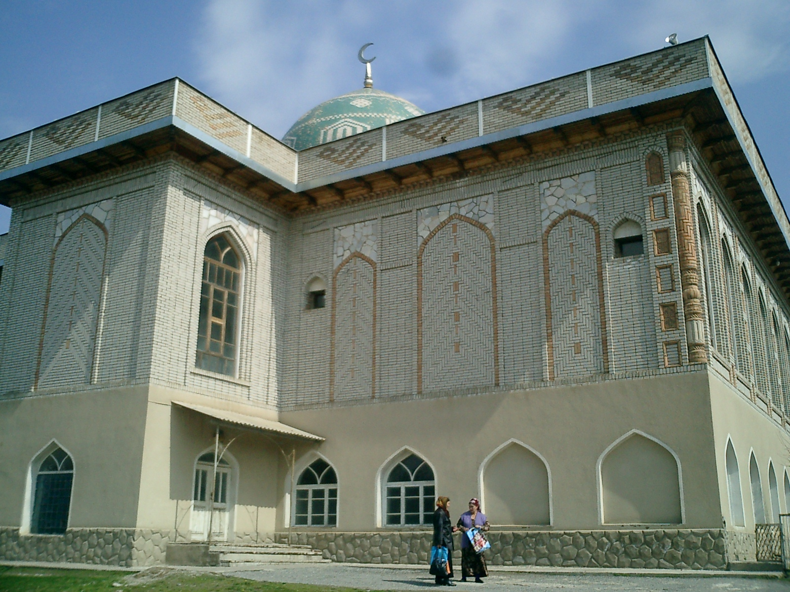 This is a photograph that I [Michael Hancock] took of the main (Friday) mosque in the city of Sayram, Kazakhstan.